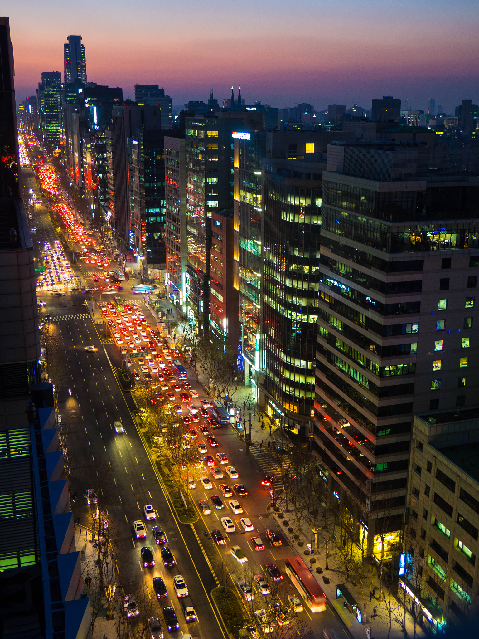 500px provided description: a long march to their homes... [#city ,#sunset ,#buildings ,#evening ,#skyline ,#seoul]